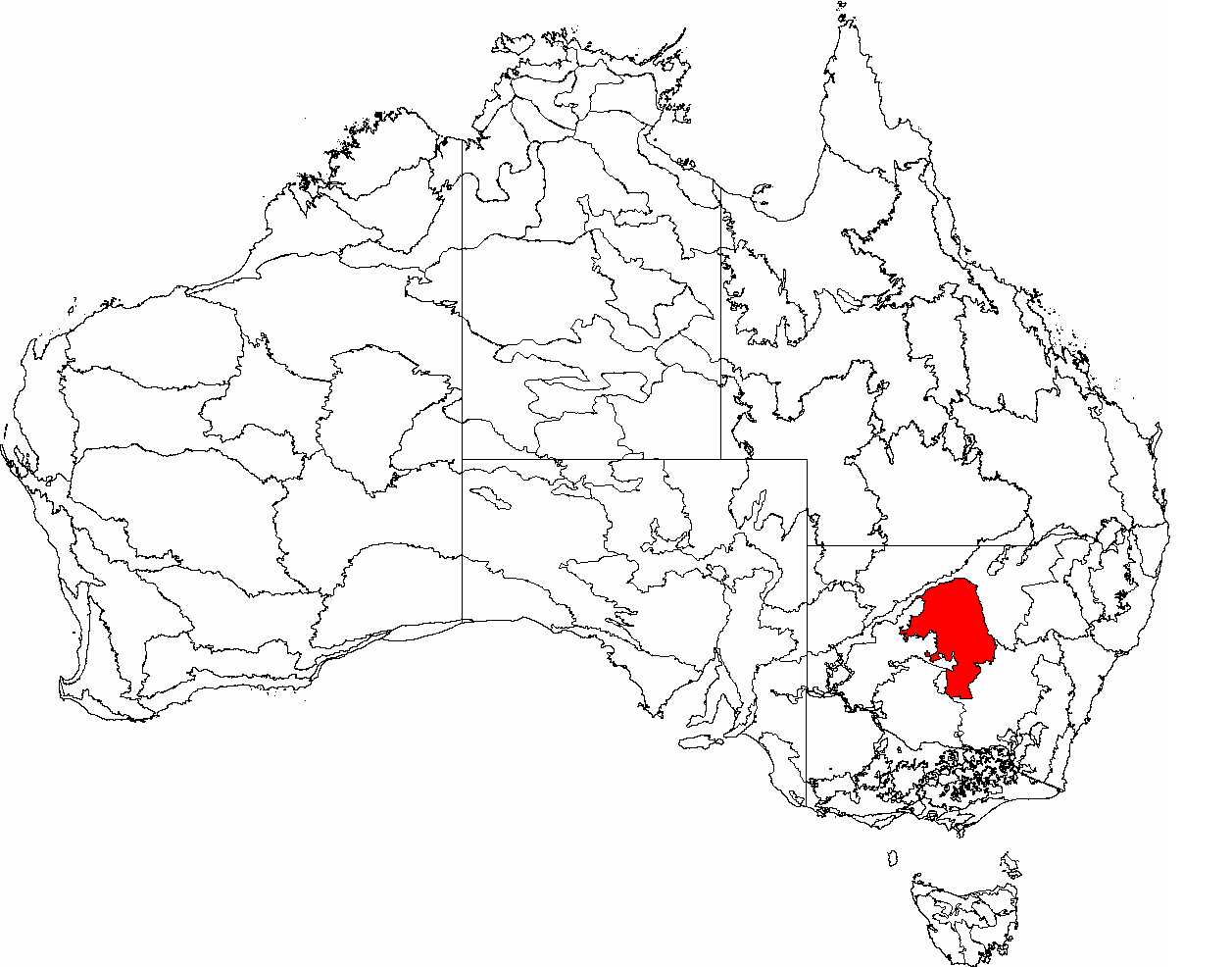 This is a map of the Interim Biogeographic Regionalisation of Australia (IBRA), with state boundaries overlaid. The Cobar Peneplain region is shown in red.